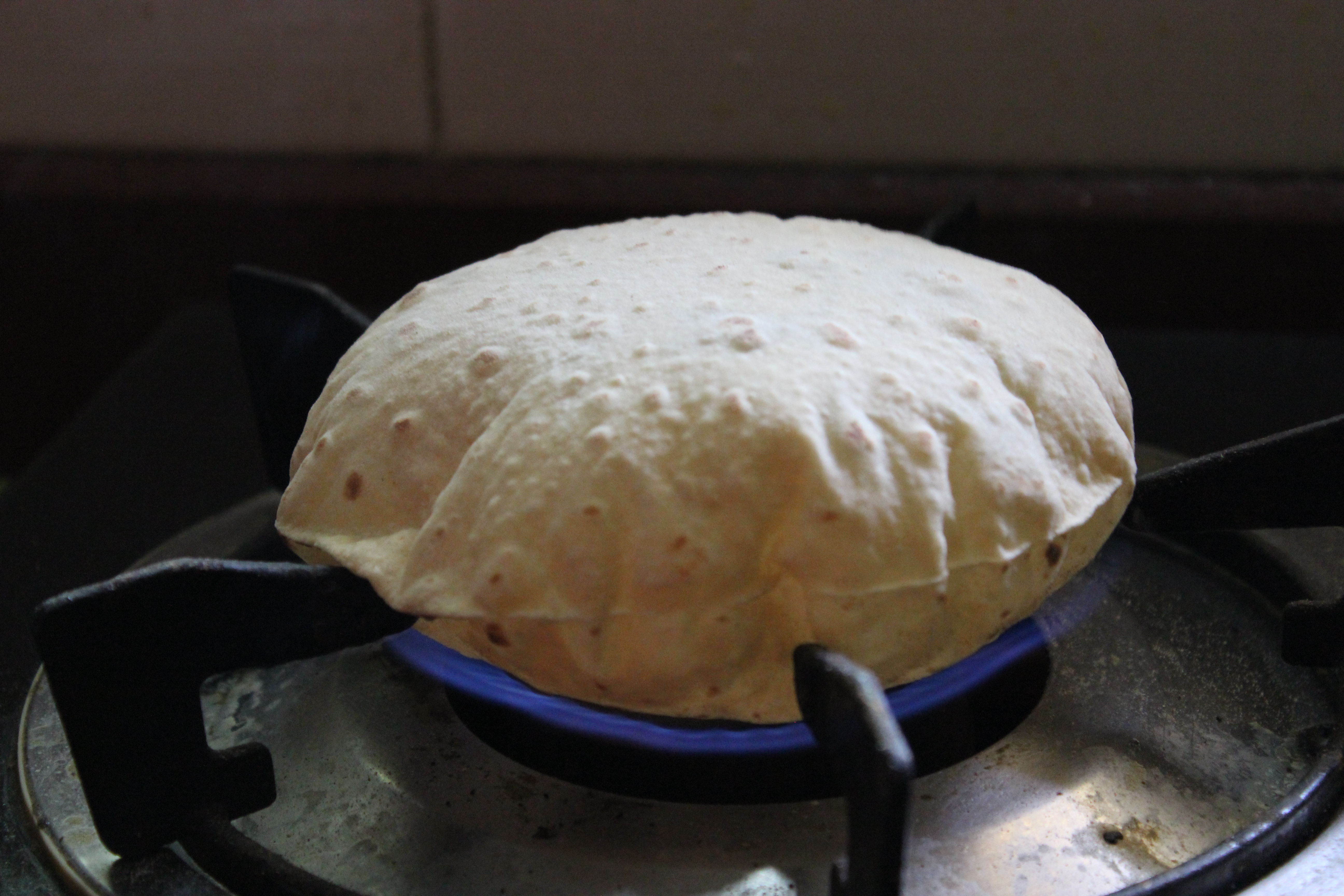 Fulka Roti on direct on flame